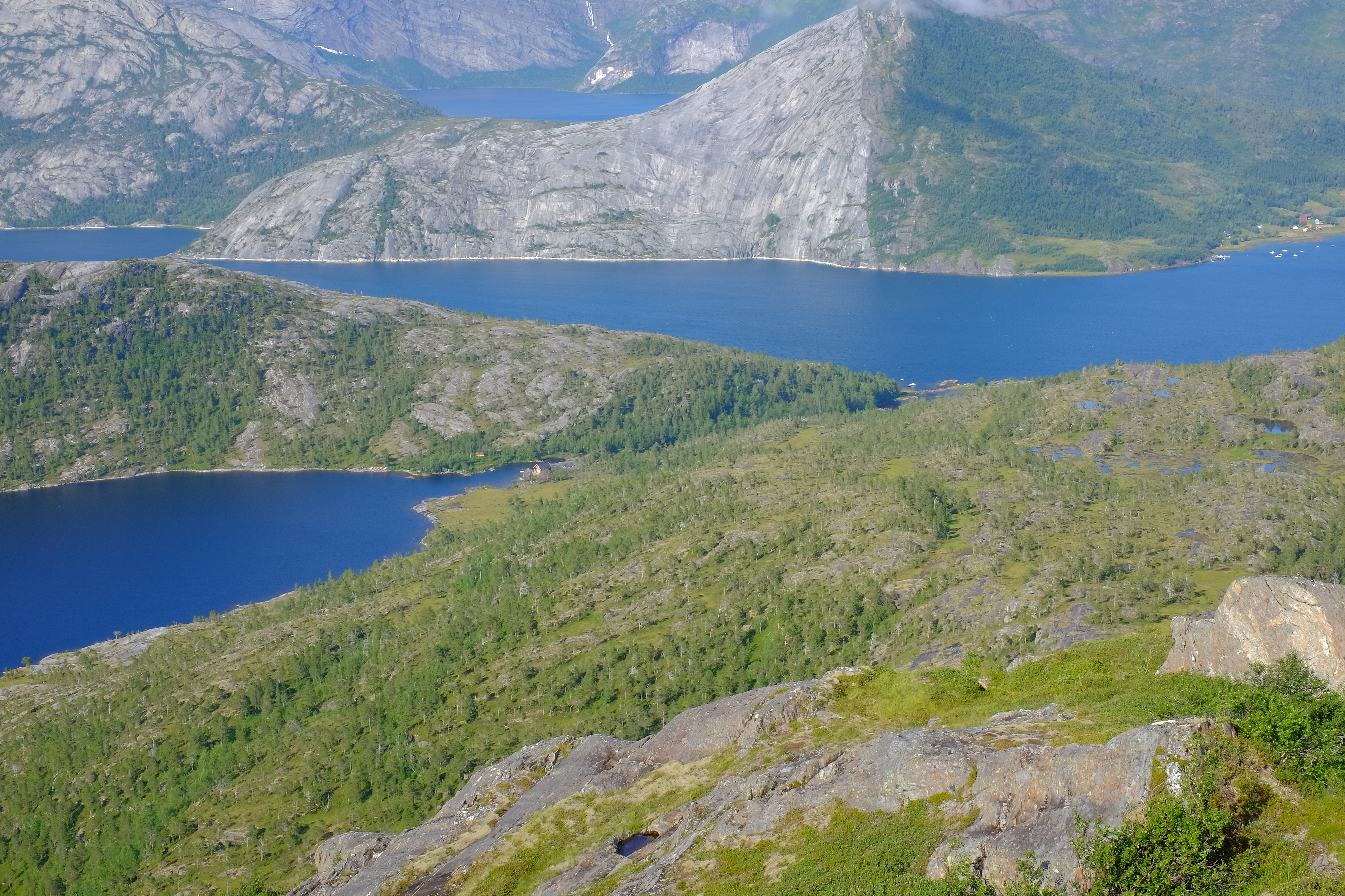 Sagelva with the outlet in Sagfjorden, Sørfold, Nordland, Norway. In Sagelva, probably northern Norway's first water saga has been in operation for around a hundred years from 1607. This was put into operation by the priest at Rørstad.